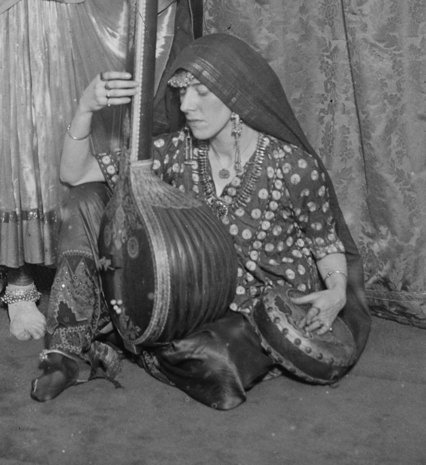 Ratan Devi singer (aka Alice Coomaraswamy) on March 17, 1917 in Manhattan - crop